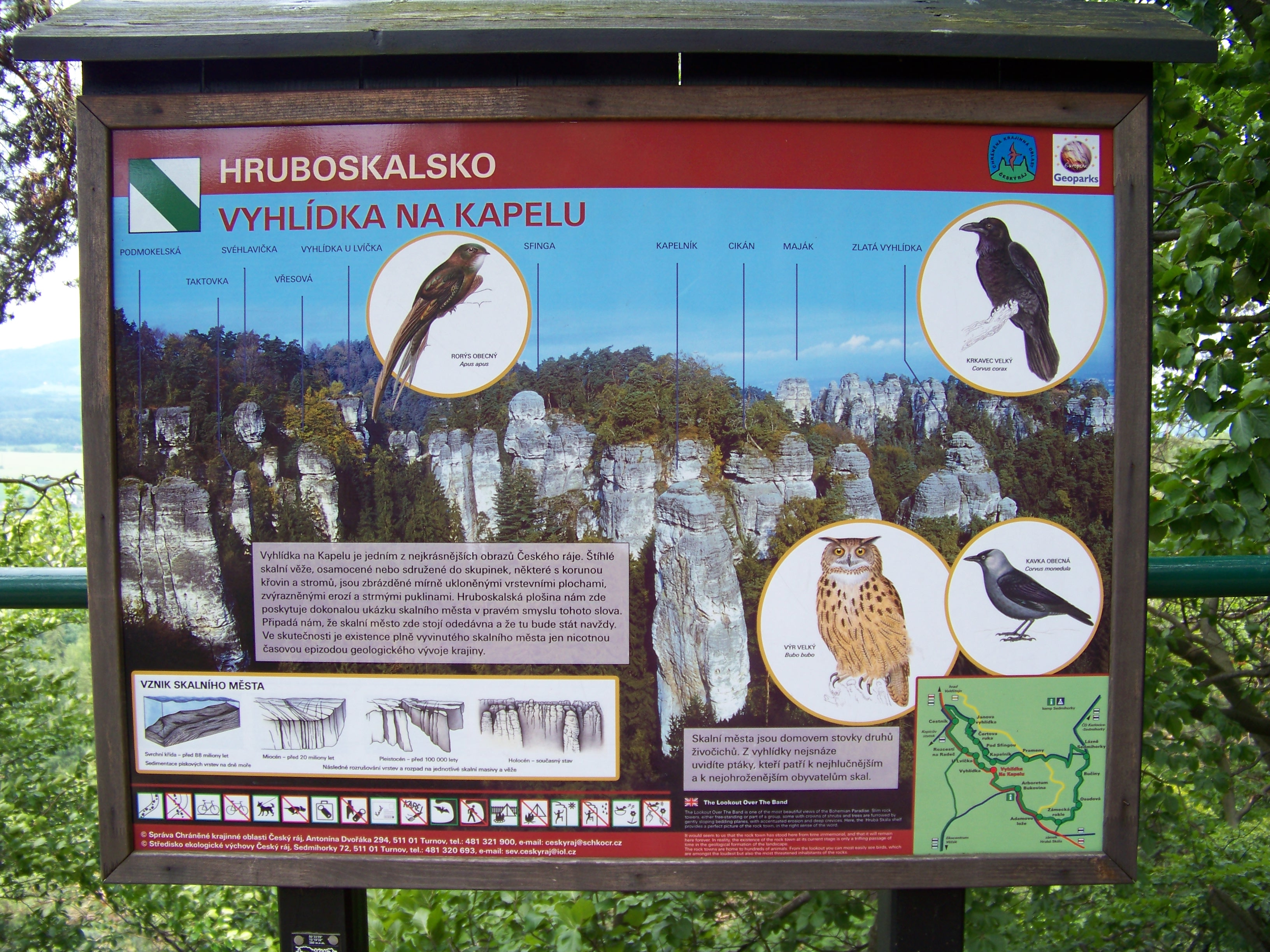 Rocks of Hrubá Skála, Liberec Region, the Czech Republic.